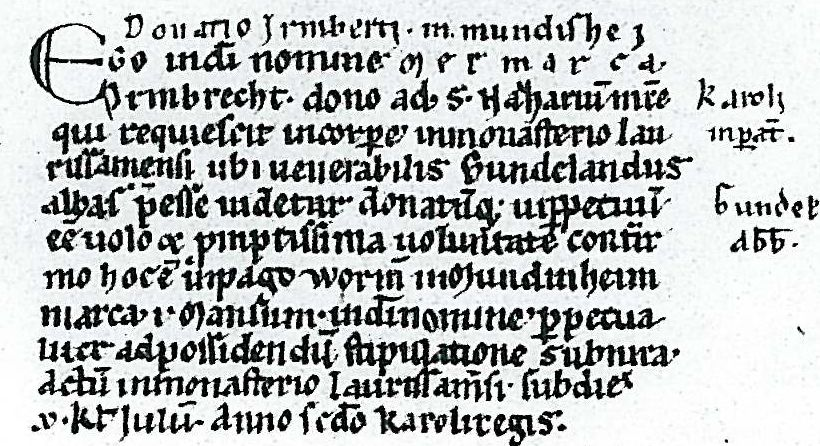 historic document